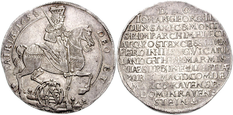 GERMANY, Sachsen-Albertinische Linie. Johann Georg II. Elector, 1656-1680. AR Taler (45mm, 29.08 g, 9h). Commemorating the death of Holy Roman Emperor Ferdinand III. Dresden mint. Dated 1658. Duke, crowned and holding sword in right hand, on horseback; Saxony coat of arms below / D • G • / IOHAN • GEORG • II • / DUX • SAX • I • C • & MONT • / S • R • IMP • ARCHIM • ELECT / ATQ • POST • EXCESS • DIV • IMP / FERDIN • III • AUG • VICARI / LANDG • THUR • MAR • MIS : / NIÆ • SUP • & INF • IUSATIÆ / BURGG • MAGD . COM • DE / MARC • & RAVENSB • / DOM • INRAVEN : / STEIN • in twelve lines. Schnee 901; Davenport 7630; KM 481. Superb EF, lustrous.